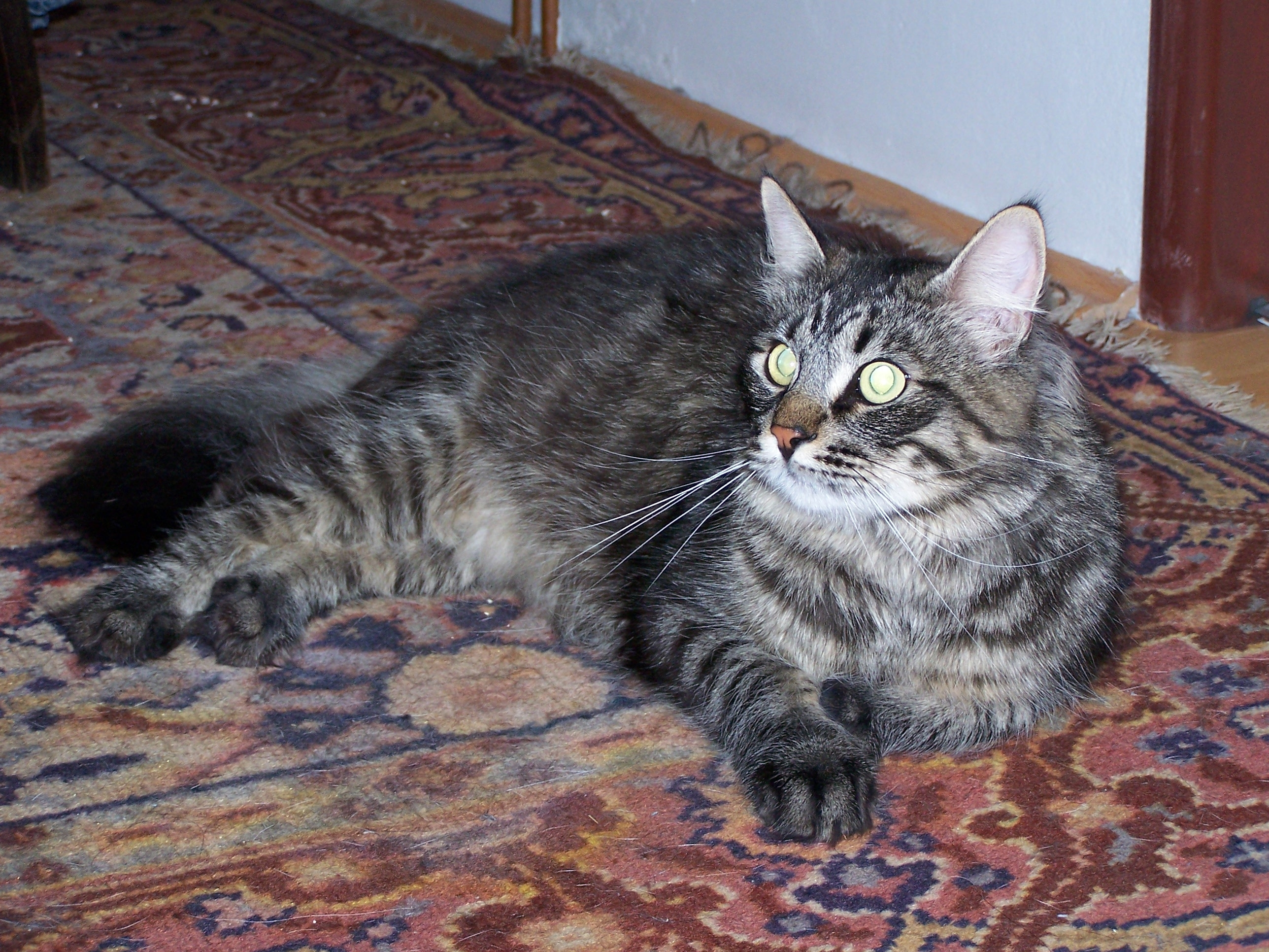 Siberian cat male.